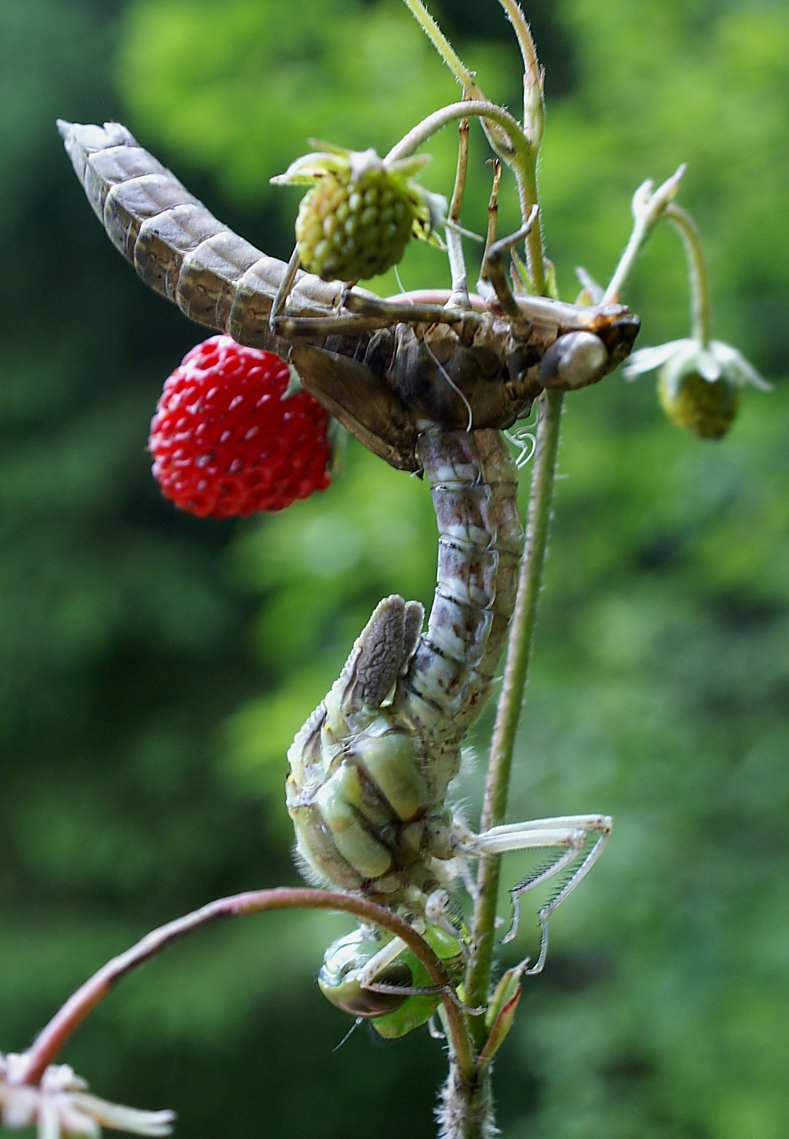 Aeshna cyanea and Exuvie.